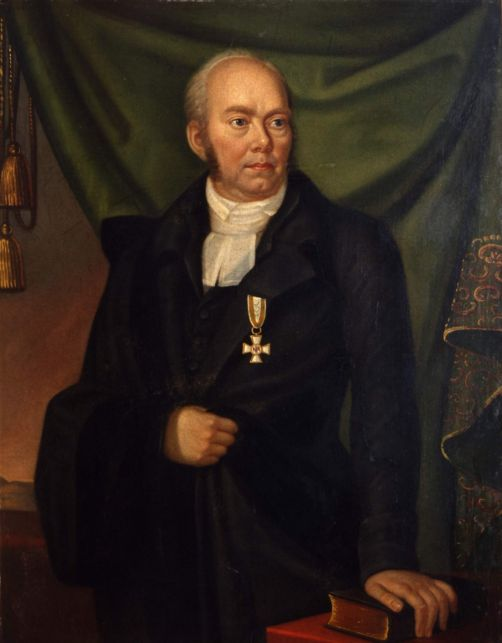 August Hermann Niemeyer, former director of the Francke Foundation in Halle/S., Germany. Oil-painting.